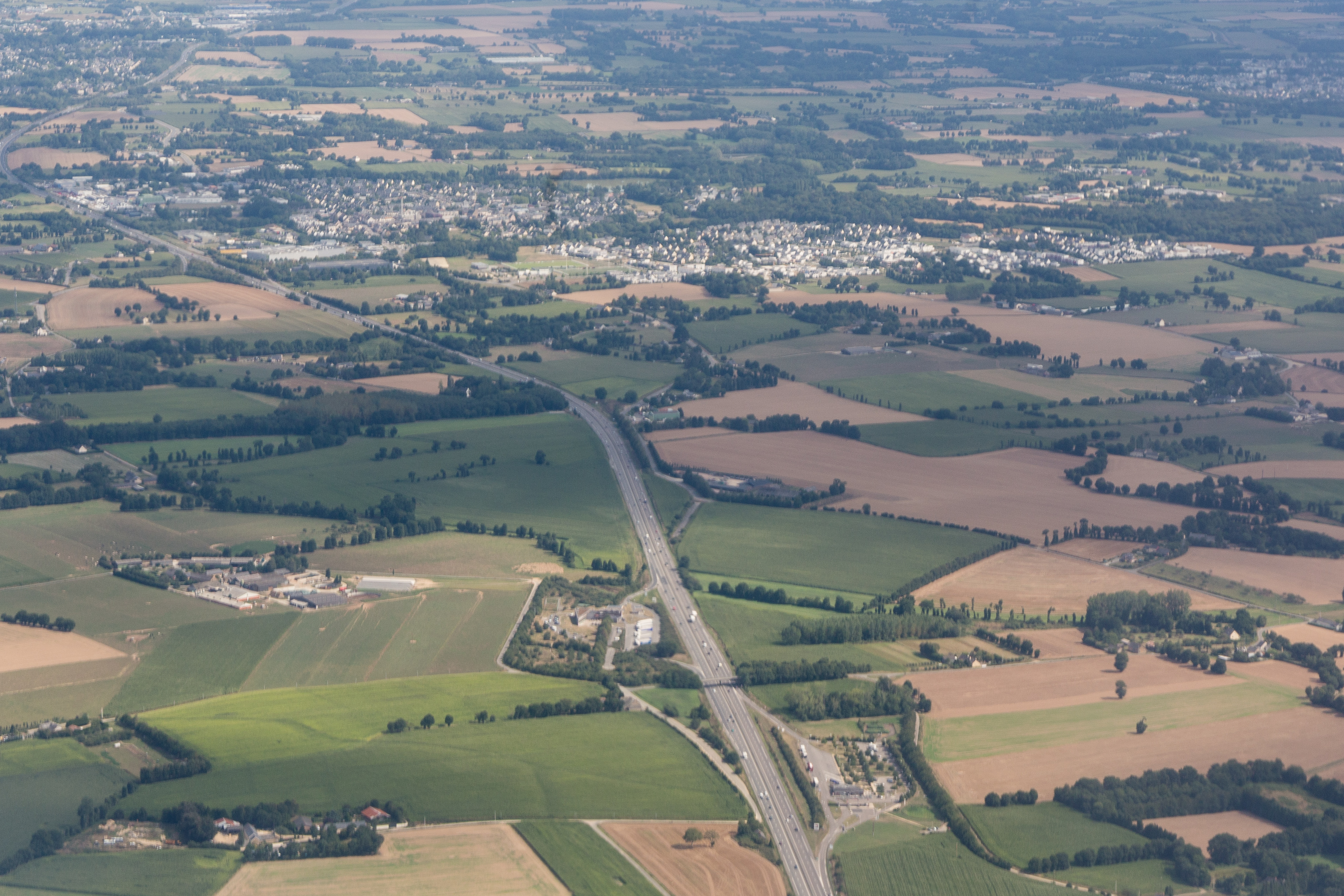 Aerial view of the route nationale 12 in Saint-Gilles during a flight from CDG to RNS.